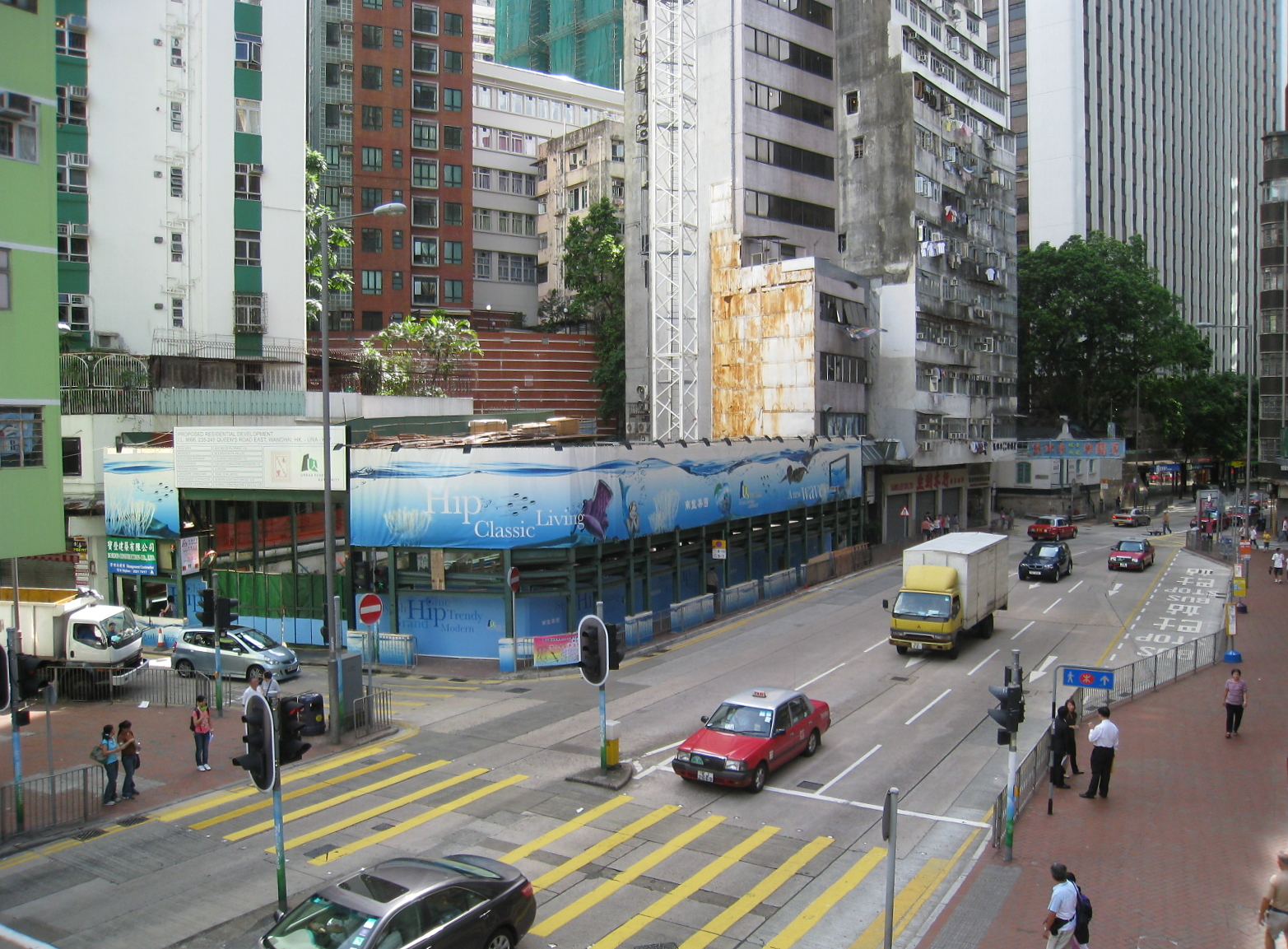 Queens Cube Construction Site